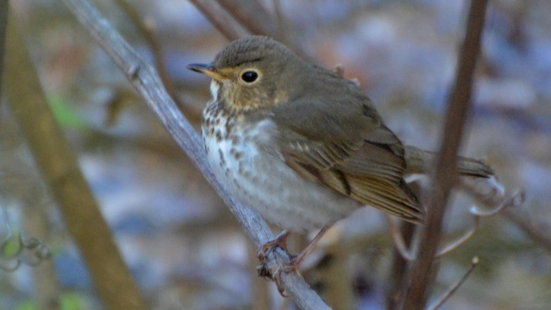 Carondelet Park in St. Louis City, Missouri on 4/19/13